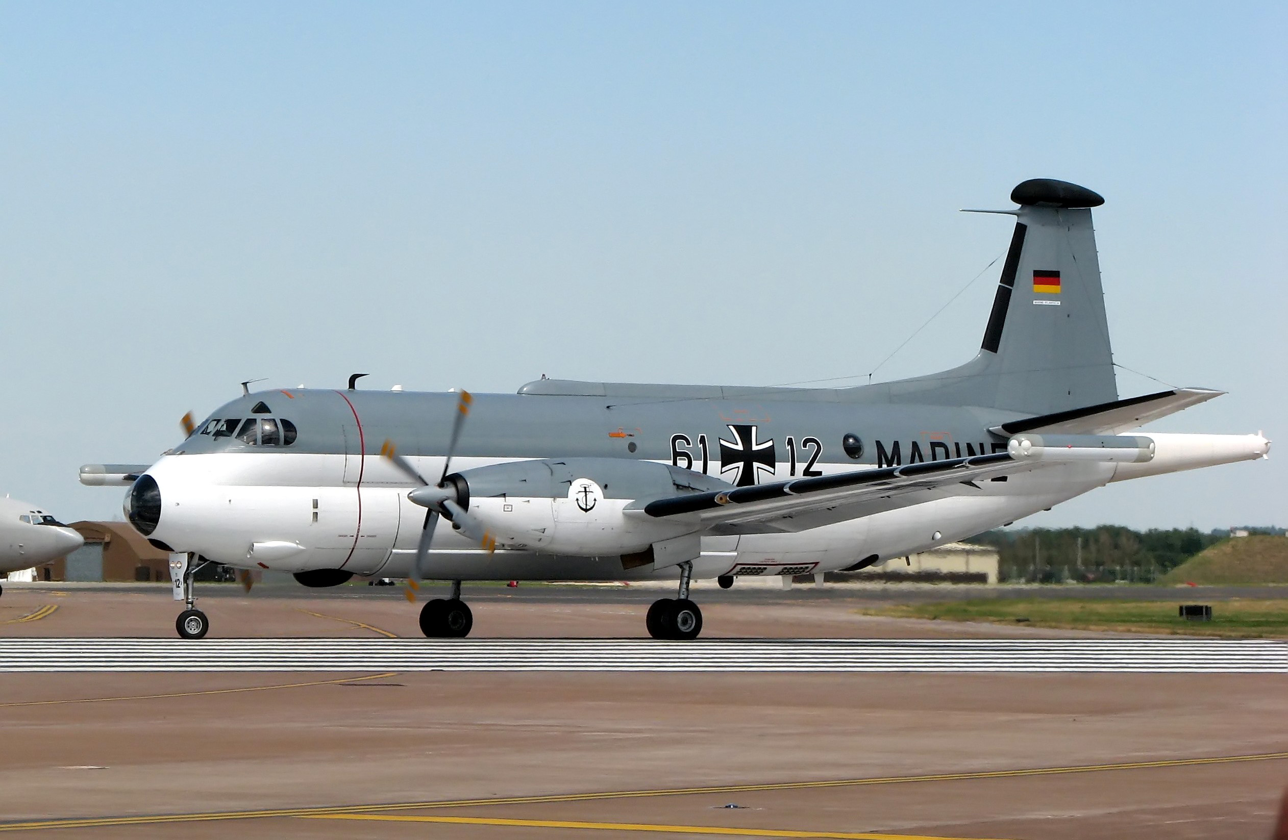 Breguet Atlantic BR1150 (code 61-12) of the German Marine, taxiing to the take off point at the Royal International Air Tattoo, RAF Fairford, Gloucestershire, England.